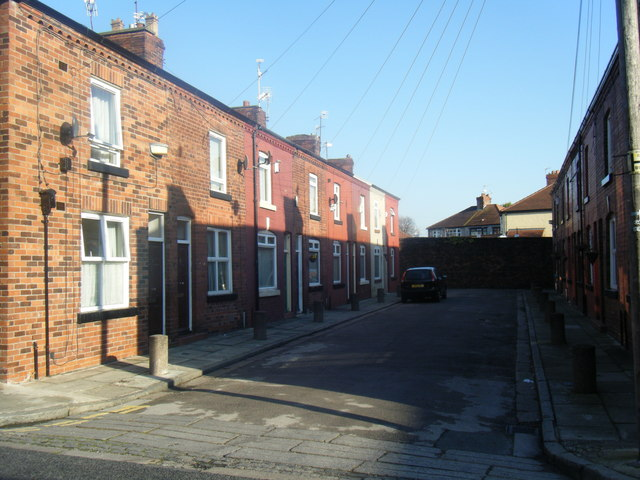 Arnold Grove, Wavertree. Beatle George Harrison was born at No 12 in this short terraced cul de sac, tucked away off High Street, Wavertree.